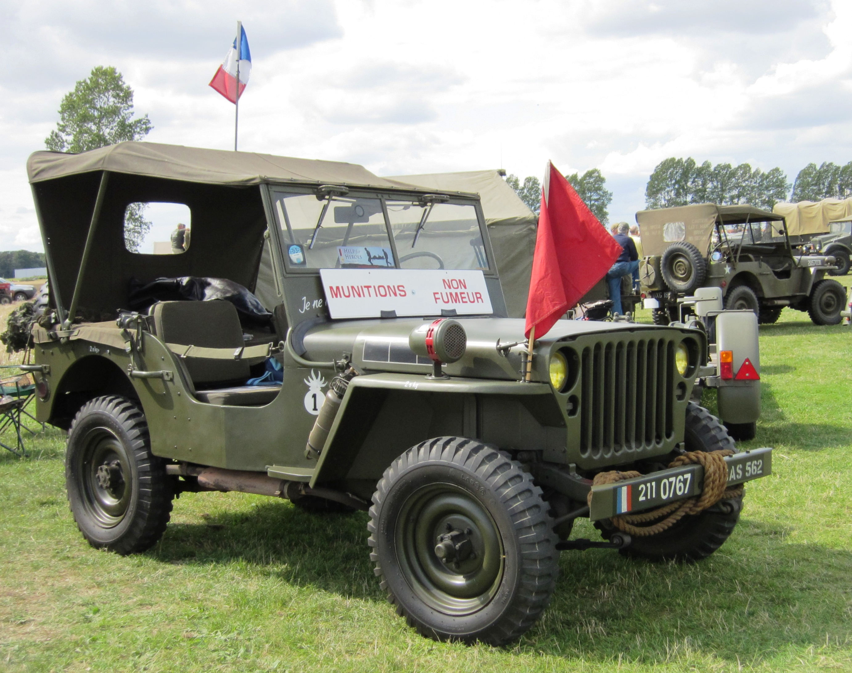 Hotchkiss M201 en Angleterre